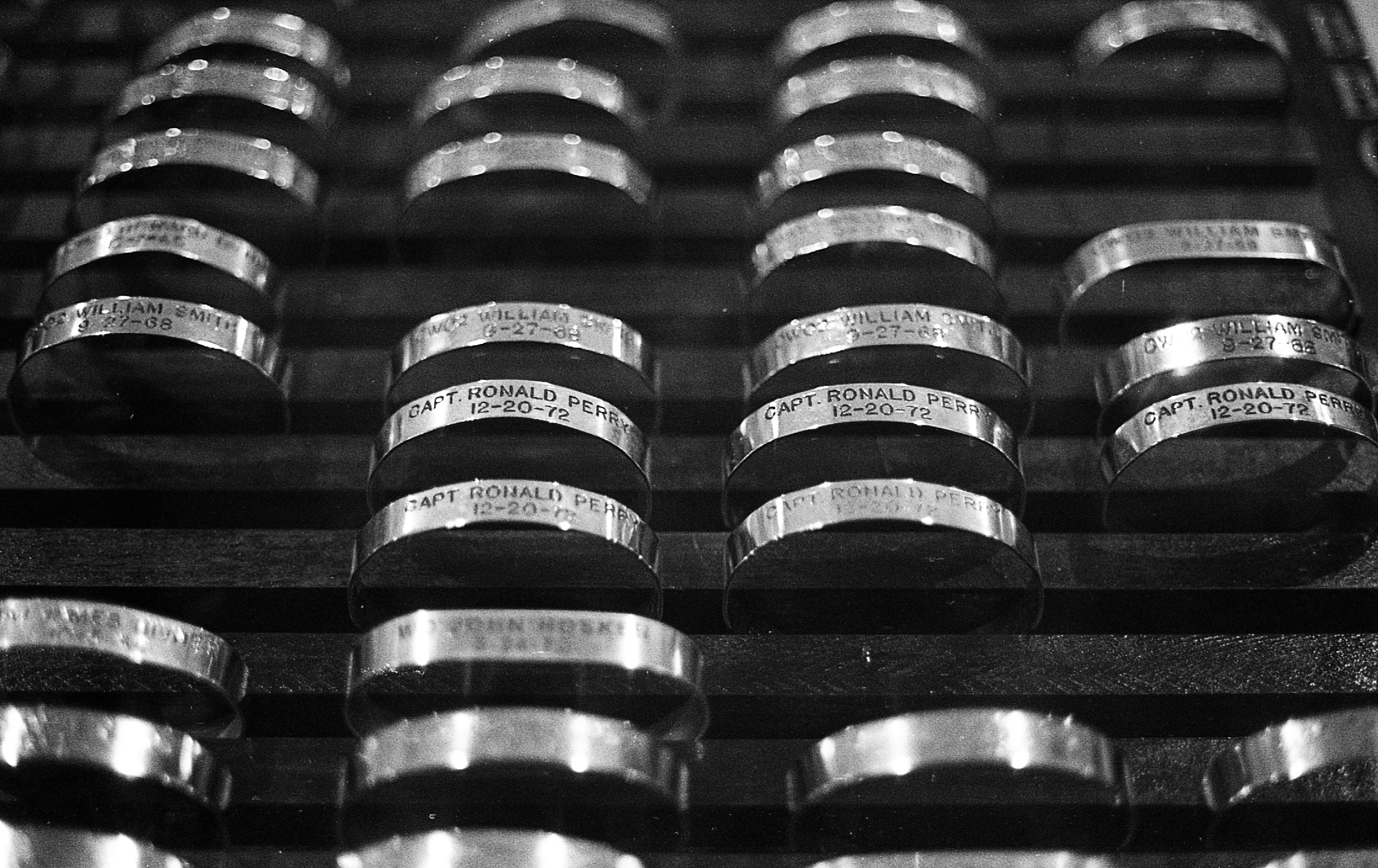 Vietnam POW Bracelet exhibit at the Palm Springs Air Museum in California.